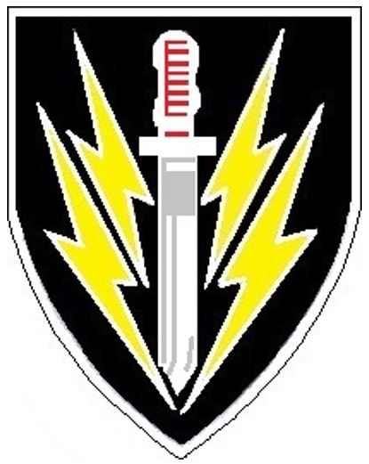 SADF 61 Mech Unit emblem circa 1993